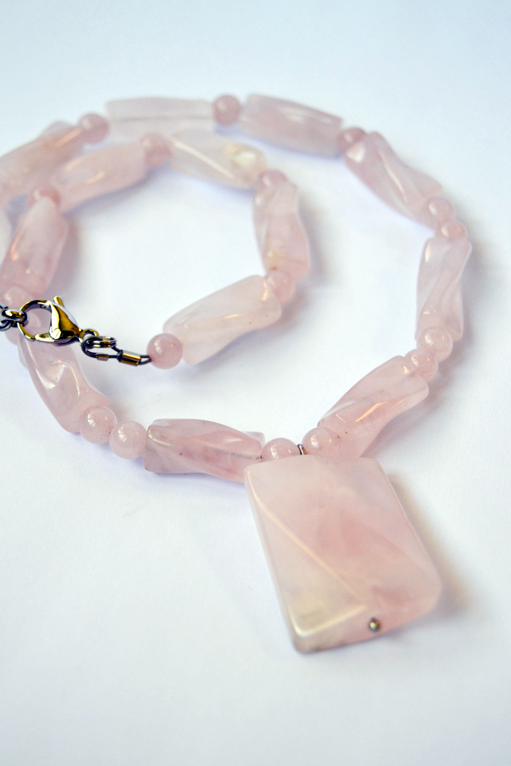 A beaded necklace made from rose quartz